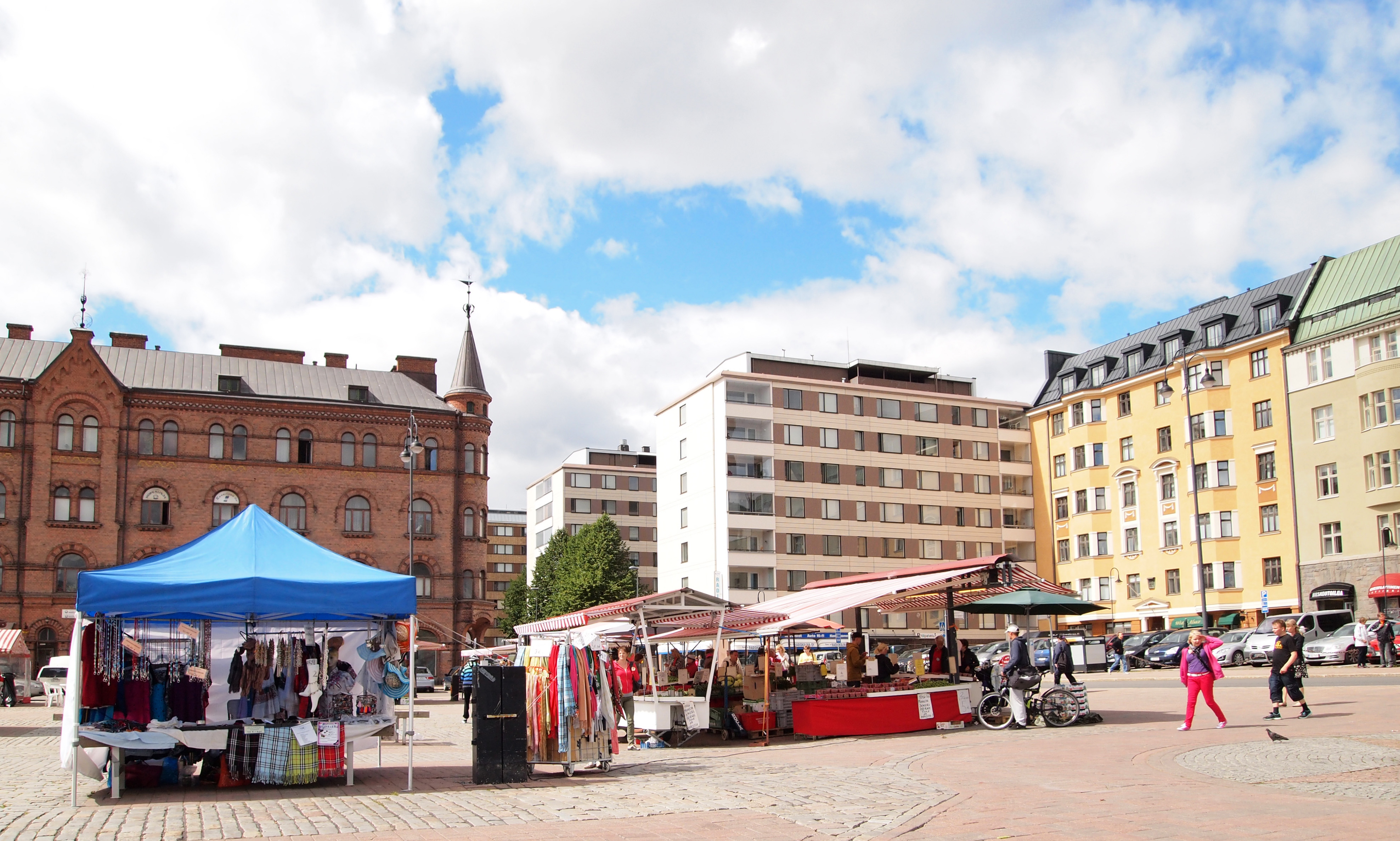 View on the square Laukontori in Tampre. This photograph was taken with an Olympus E-PL1